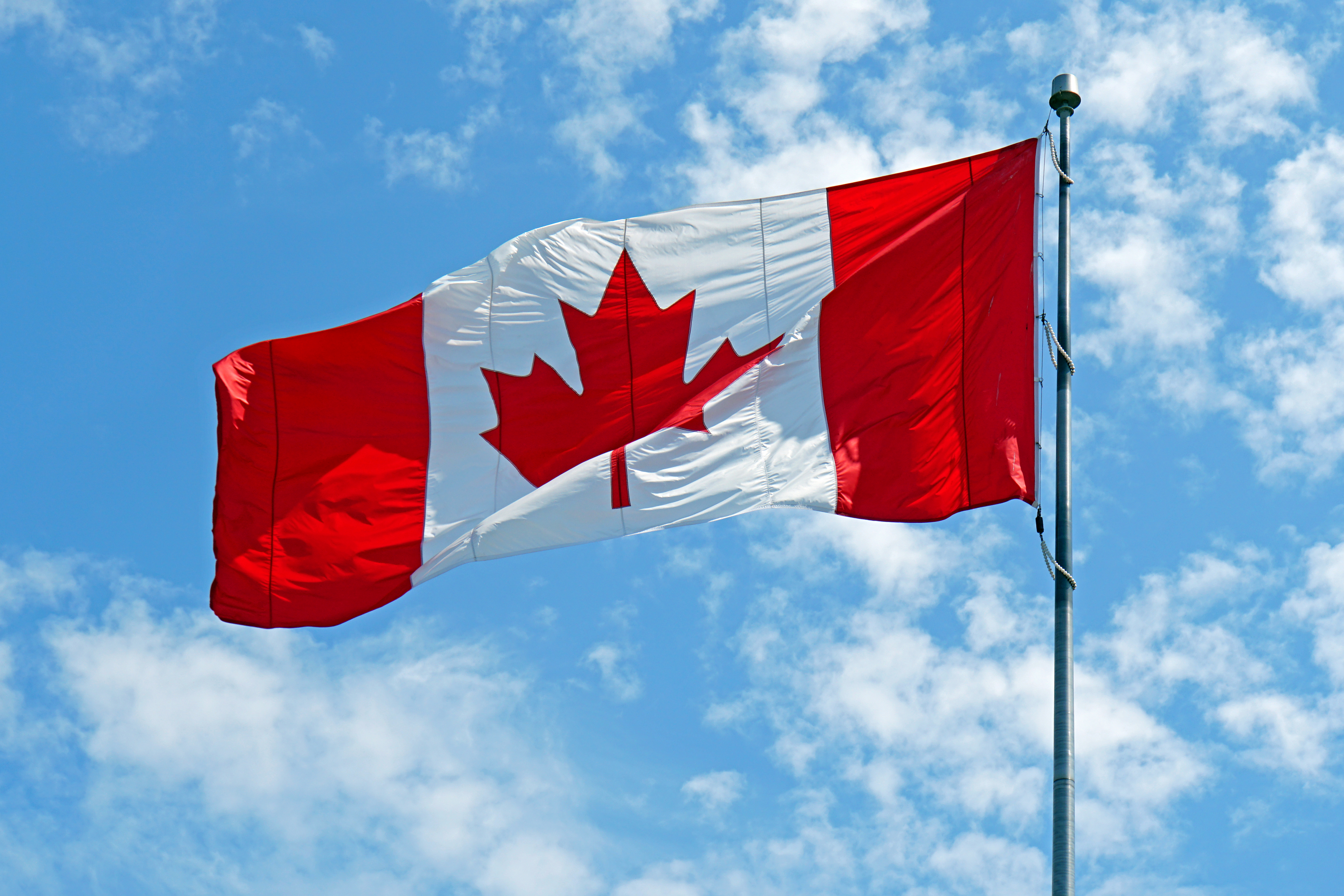 I HATE WHAT I AM SEEING HAPPENING IN THE USA... but not here. 1. Where 50% + 1 wins (a true democracy) 2. Live longer 3. Less discrimination 4. Better health care 5. Better education 6. More freedom of believes and lifestyle 7. Religious Freedom 8. More welcoming to emigrants 9. Less Guns 10. Less Crime 11. Higher Net Worth per household 12. Have the metric system 13. We give more to charities 14. We wear OUR flag when we travel 15. Our illegal emigration problems are USA people coming to live here... we should build a wall and make Americans pay for it, LOL. 16. We are against all forms of torture 17. BUT the best thing is what we don't have - TRUMP The list is so long I would run out of room if I kept going. Calling on all Snowbirds to stay home or go to a more friendly and welcoming country. Boycott ALL Trump, hotels, buildings, products, golf courses and anything else with the Trump name. PS - I DID LIVE IN THE USA AT ONE TIME (Florida and Missouri) ...... The Canadian Flag or the Maple Leaf Flag with an 11-pointed red maple leaf. The Senate and House of Commons voted for the present flag in 1964. After months of debate, the final design, adopted by Parliament and approved by royal proclamation, became Canada's flag on 15 February 1965.